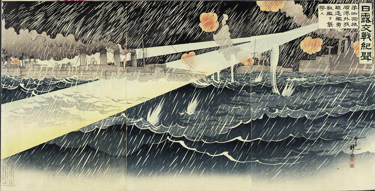 “News of Russo-Japanese Battles: For the Fourth Time Our Destroyers Bravely Attack Enemy Ships Outside the Harbor of Port Arthur” by Migita Toshihide, March 1904. Ukiyo-e print from the Sharf Collection, Museum of Fine Arts, Boston